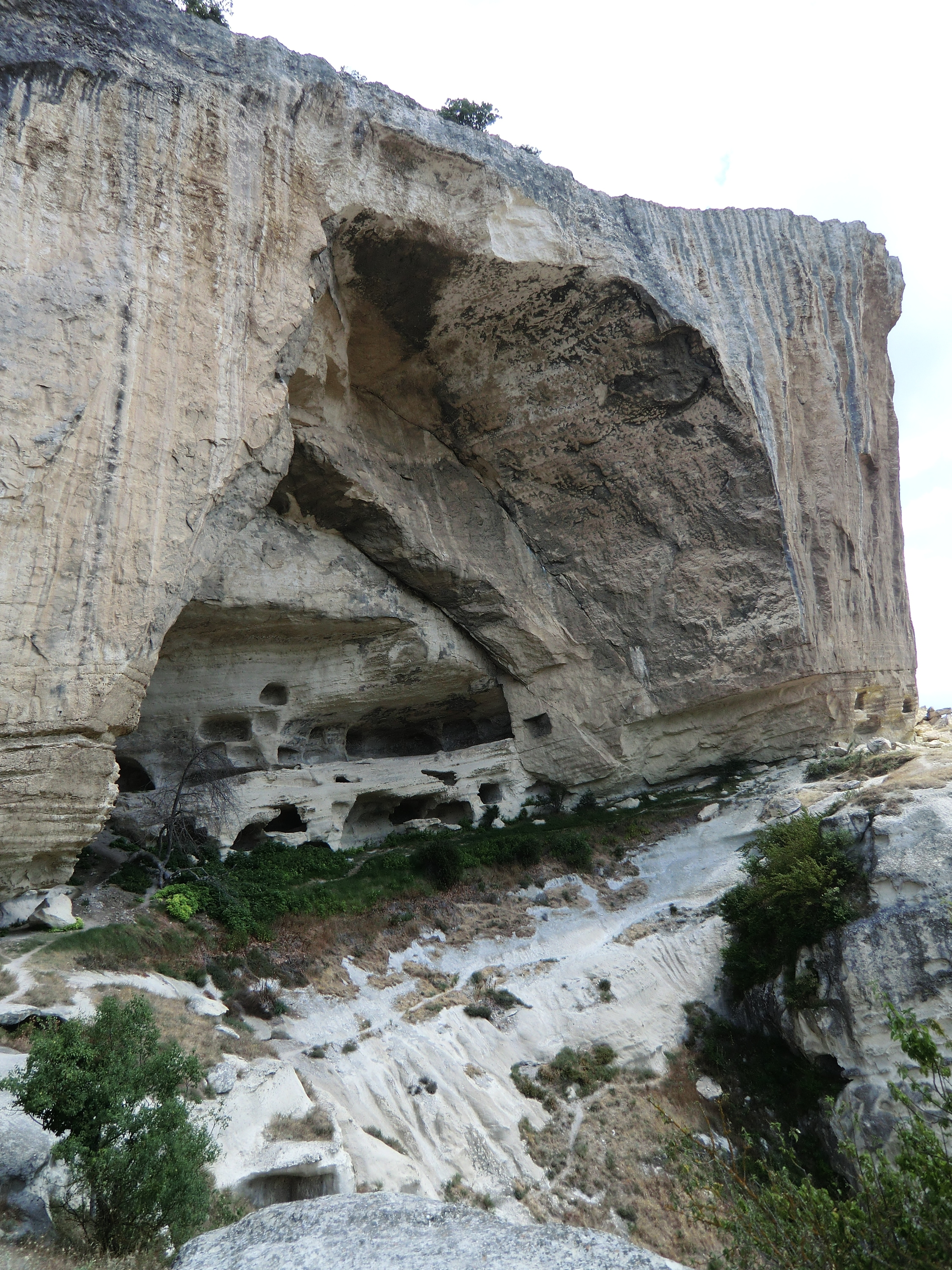 Ukraine, Crimea, Bakhchisaray area, Cave monastery of Kachi-Kalon, The fourth grotto